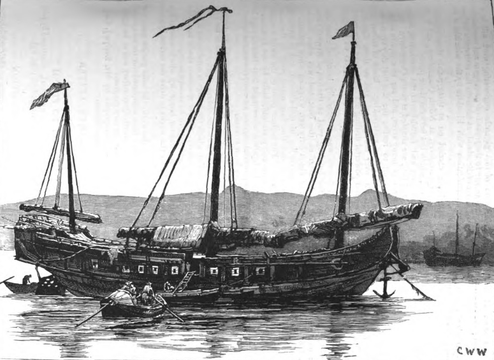 Chinese War junk